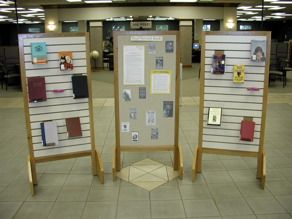 A selection of challenged and banned books available at Carmichael Library. At center is a news clipping about a local challenge to a book as well as a list of the top challenged books in 2006